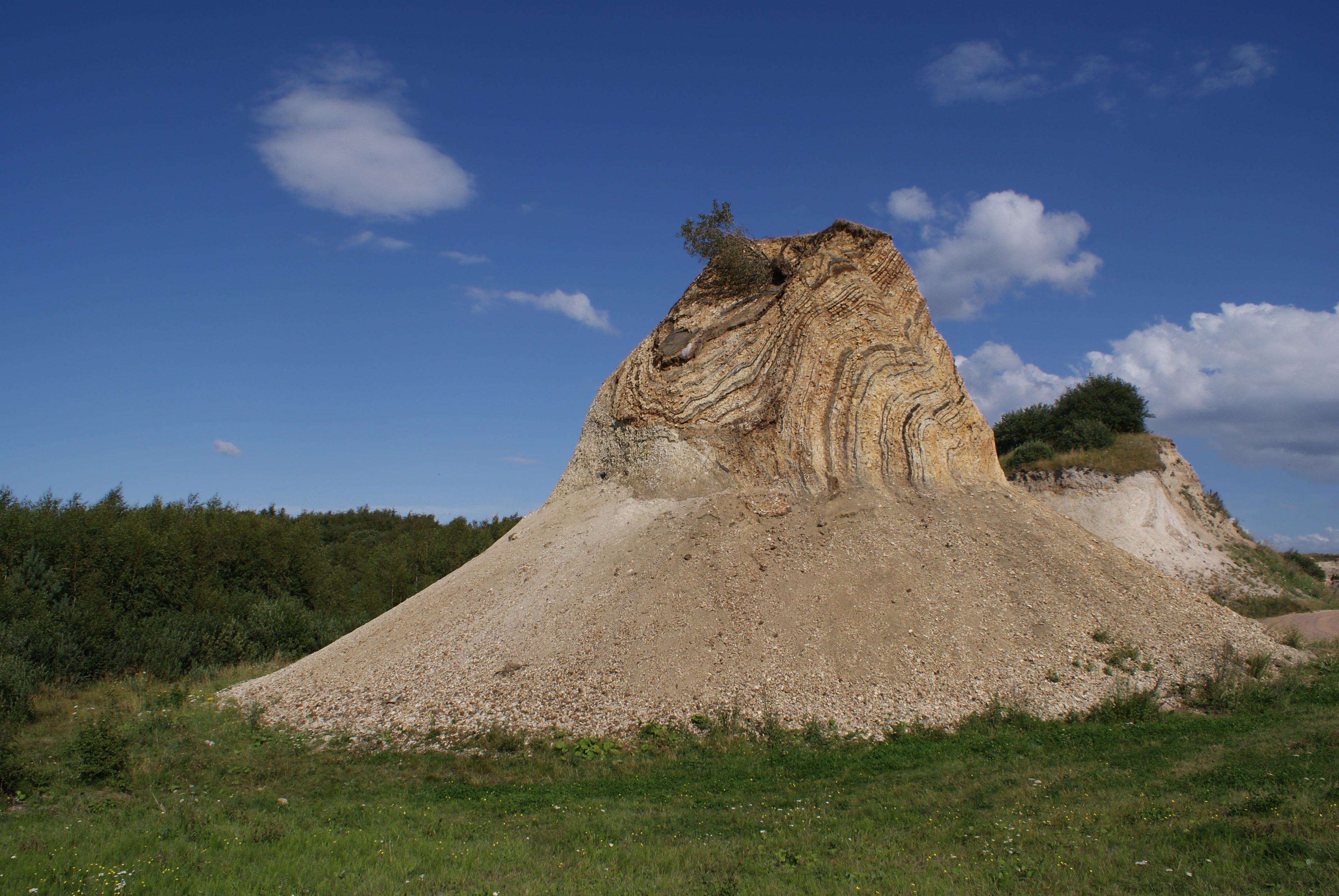 Moclay with layers of vulcanic ash, Fur formation, Fur (Island), Denmark. The geological layers are approximate 54-55 million years old and have been folded by glacial tectonics.